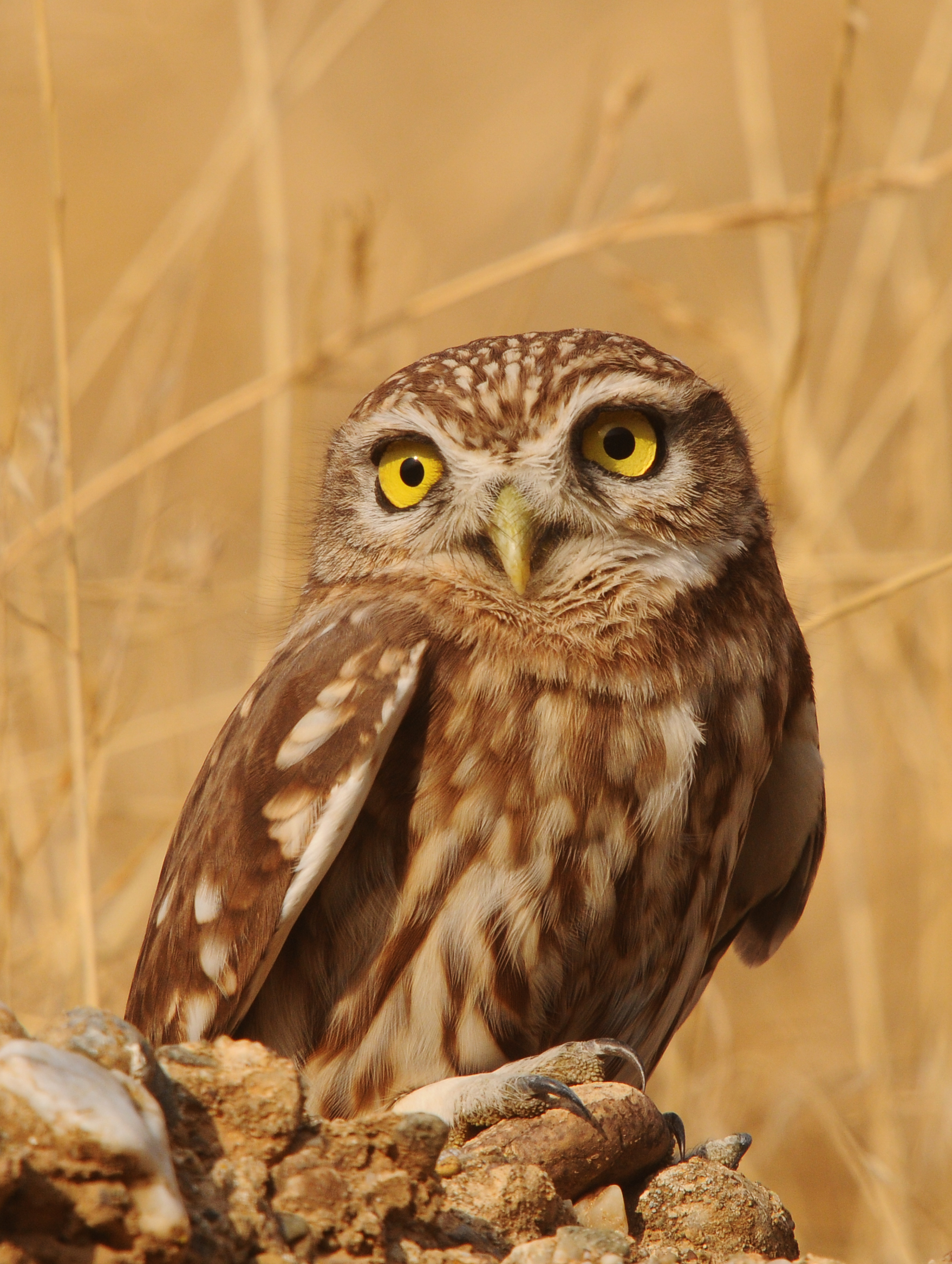 A Little owl (Athene noctua) Kurdî: Kundek